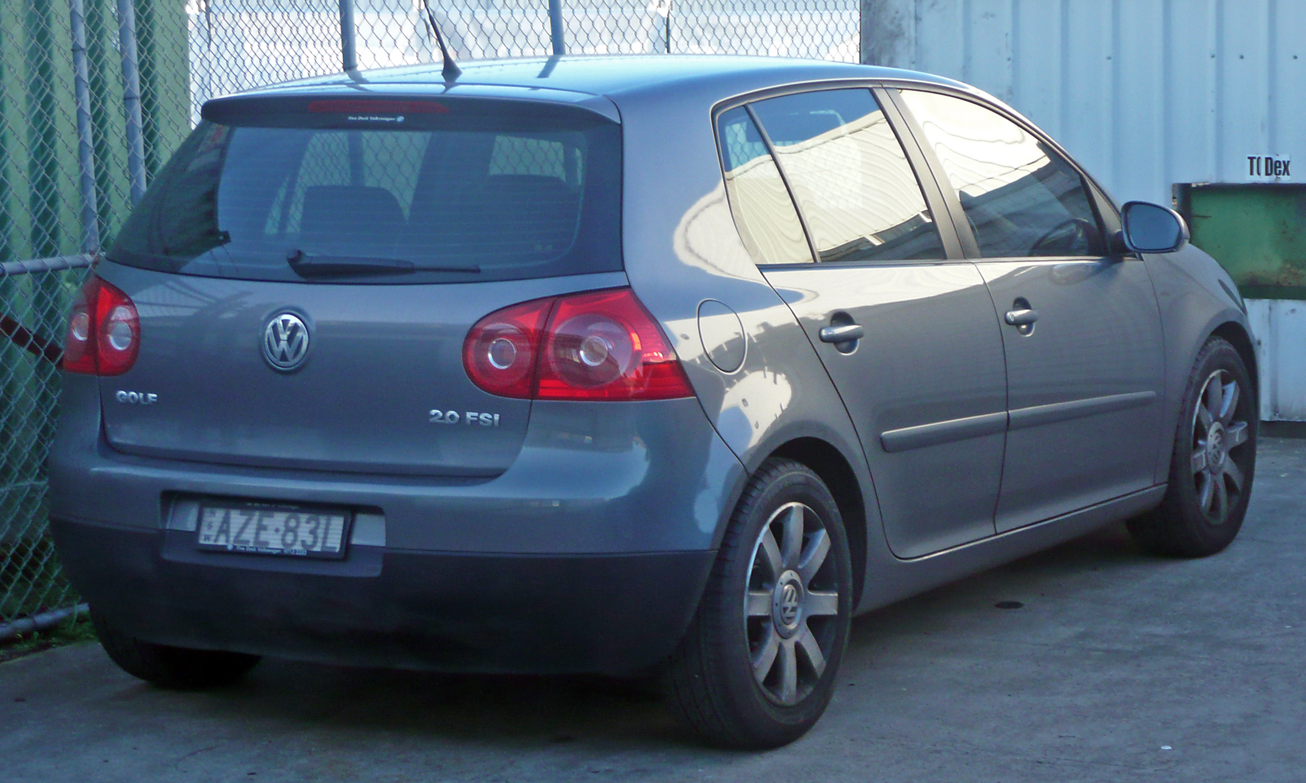 2006 Volkswagen Golf (1K) Sportline 2.0 FSI 5-door hatchback. Photographed in Kirrawee, New South Wales, Australia.